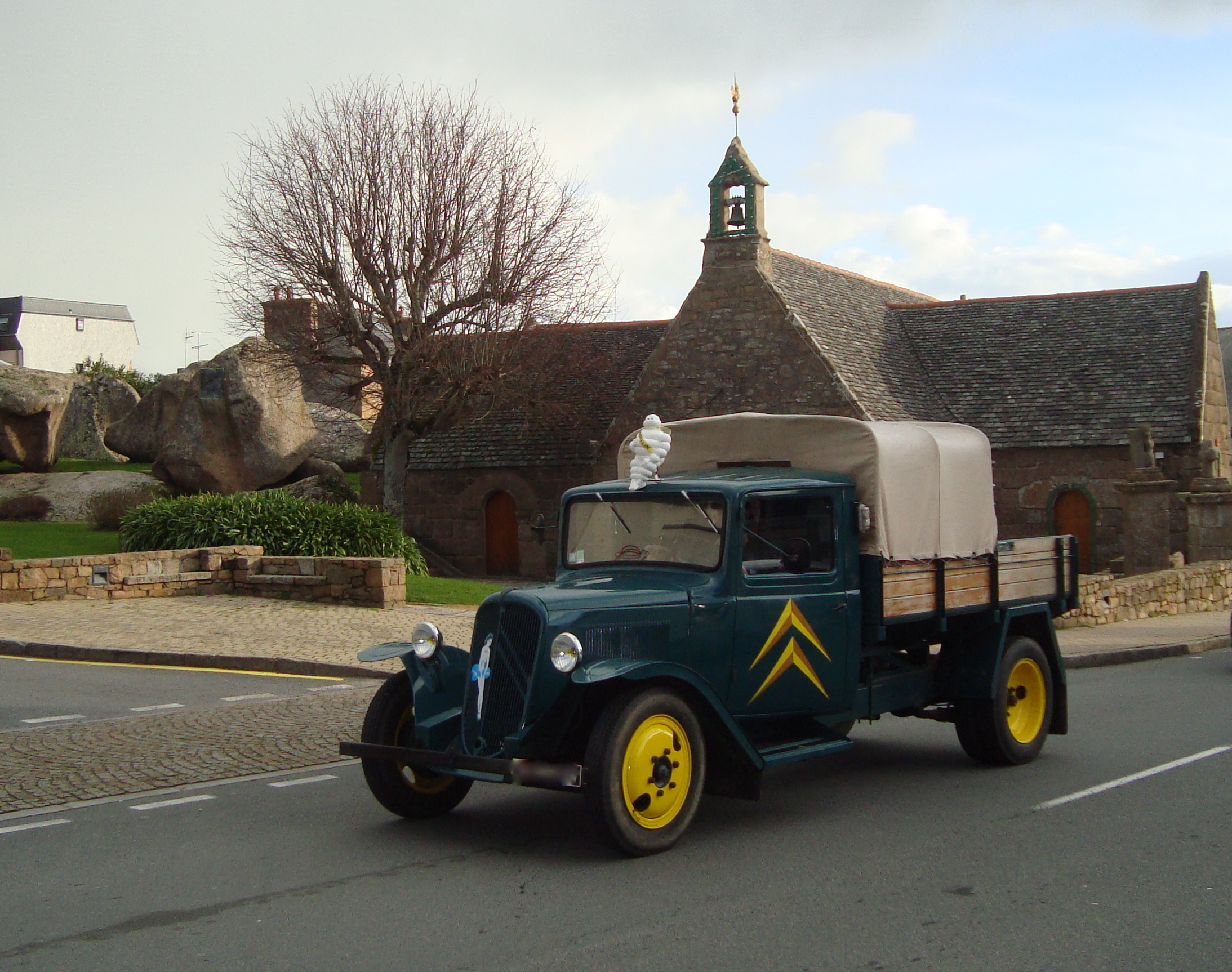 Citroen vehicle probably a U23 model seeing in Trégastel